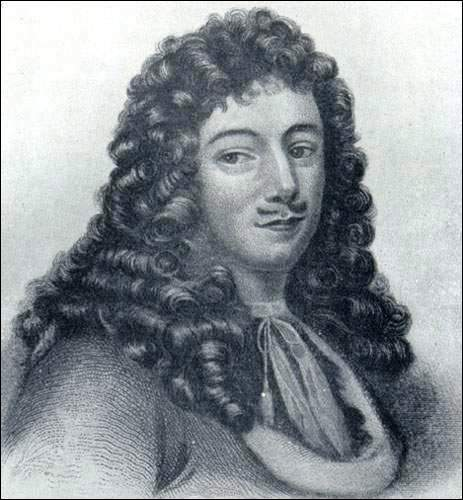 Illustration of Jean Talon, first intendant of New France. Engraving.